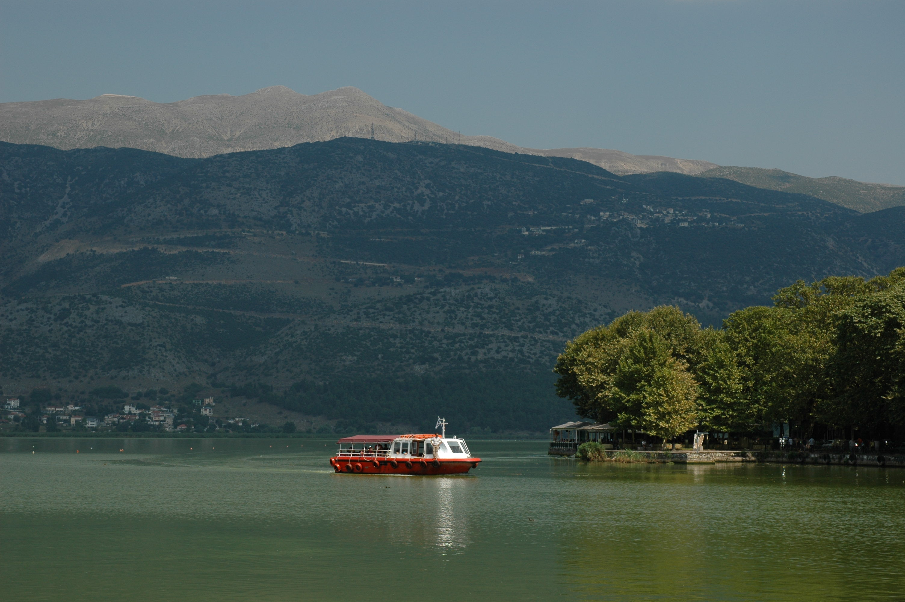 A ferry on Lake Pamvotis, the lake of Ioannina, Greece, returns from the island.